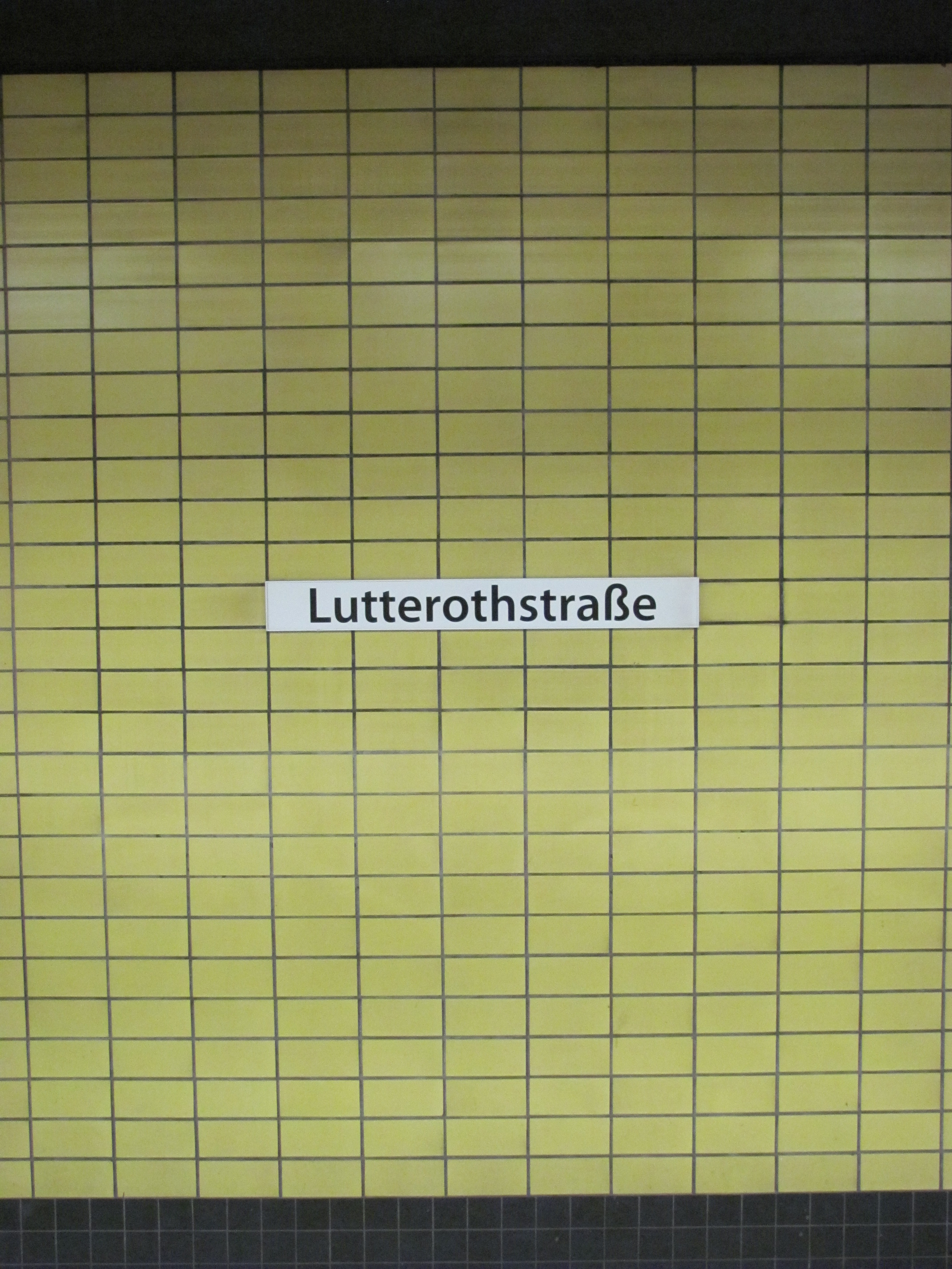 U-Bahn station Lutterothstraße in Hamburg, Germany